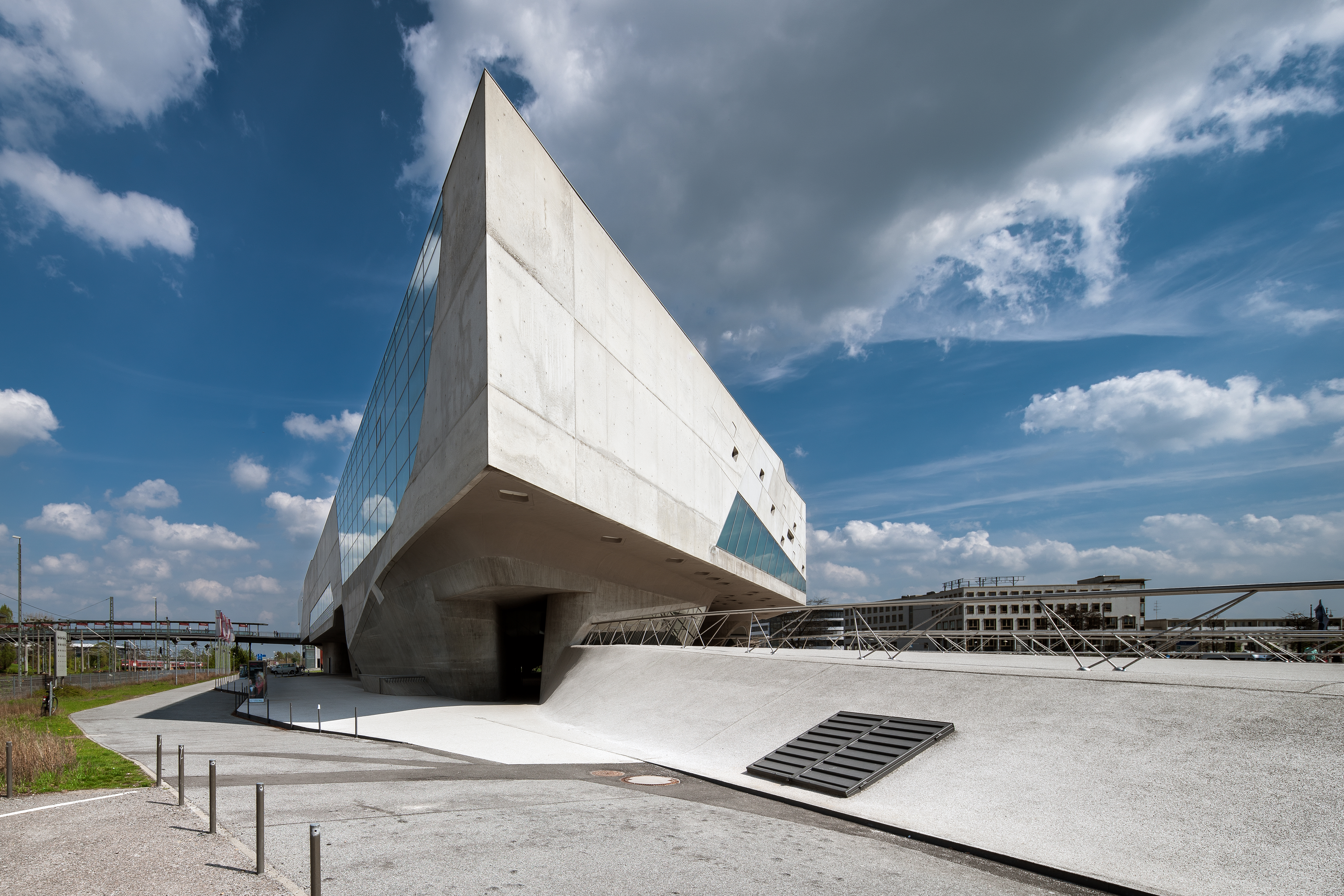 phæno Wolfsburg, Germany heading East